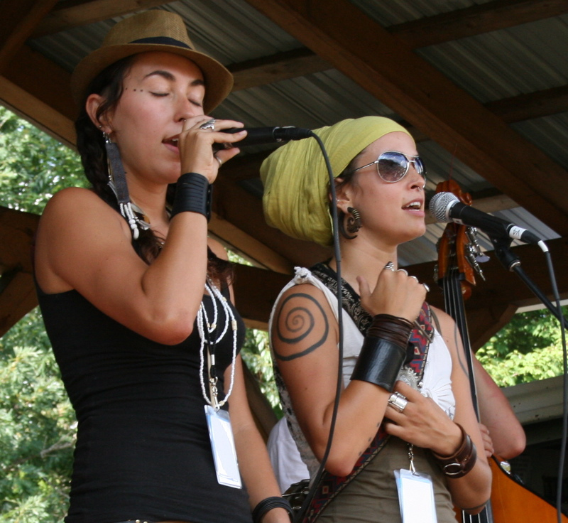 Rising Appalachia at the FloydFest 2010 in Floyd, Virginia